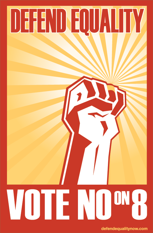 "Defend Equality Now", a poster against California Proposition 8.